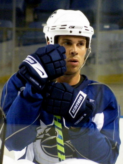 Vancouver Canucks defenceman Willie Mitchell during a team practice.